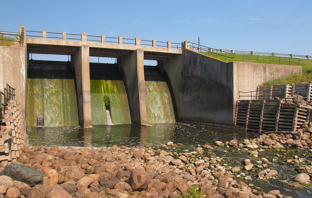 Lake Bronson Dam, Lake Bronson State Park, Minnesota, USA